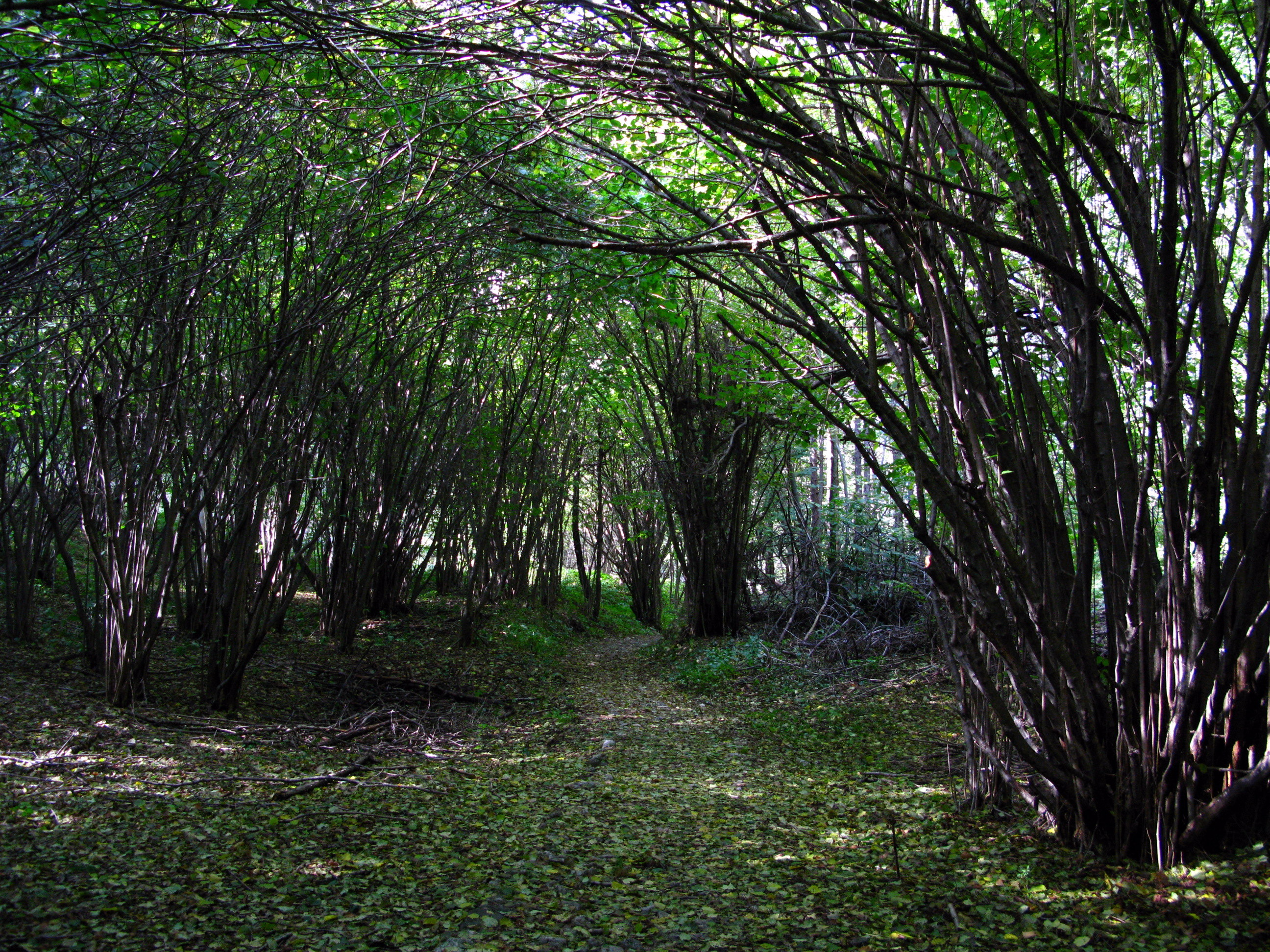 Hazelnut trees (Corylus avellana) at the mulish trail from Moggio Udinese towards Moggessa di Qua / Canal del Ferro / Friuli-Venezia Giulia / northern Italy / EU. The bushes are about 30 years old and could spread to a no longer farmed meadow.